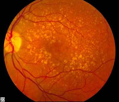 Description: A fundus photo showing intermediate age-related macular degeneration. Credit: National Eye Institute, National Institutes of Health Ref#: EDA2